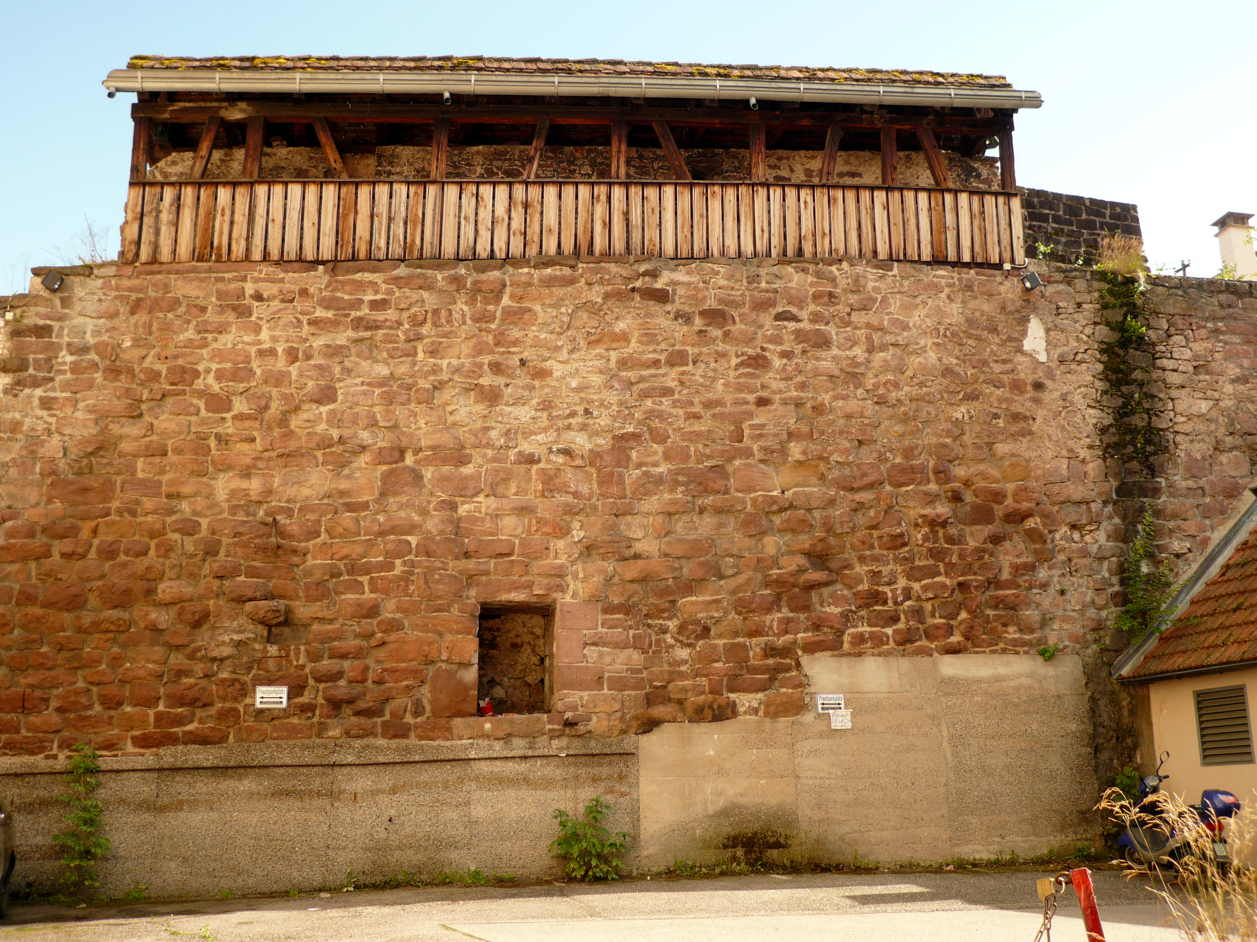 Remainders of town wall of Calw